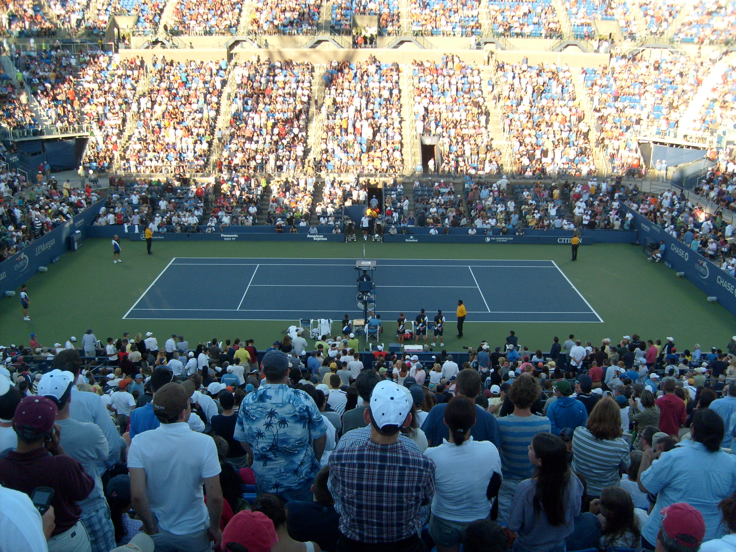 Inside Armstrong Stadium during the 2010 US Open.